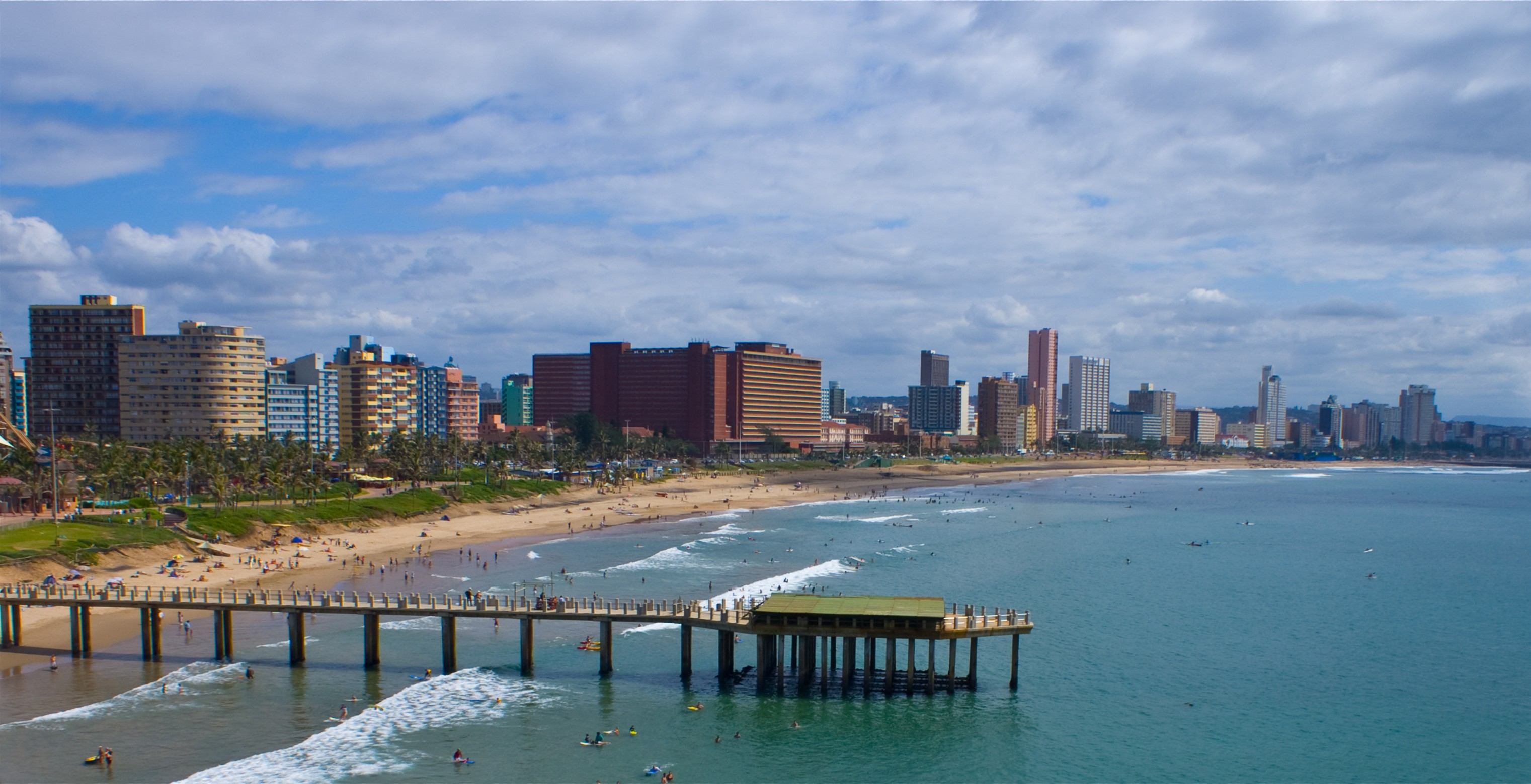 Skyline of Durban, South Africa, from helicopter. Vetchies pier. The red building in the middle ist Addington Hospital, followed by the beachfront.